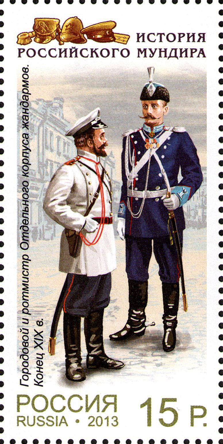 The History of the Russian Uniform (the ongoing series, issue I).The Ministry of Internal Affairs.A policeman of the urban force (on the left) and a Rotmistr of the Special Corps of Gendarmes. The end of 19th century.The stamp of Russia, 15.00 Rubles, 8 November 2013, PTC Marka Catalogue No 1748, Michel No 1980. Coated paper. Offset printing. Perforation: comb 12×12. Size of the stamp: 32.5×65 mm. Print run: 320,000.